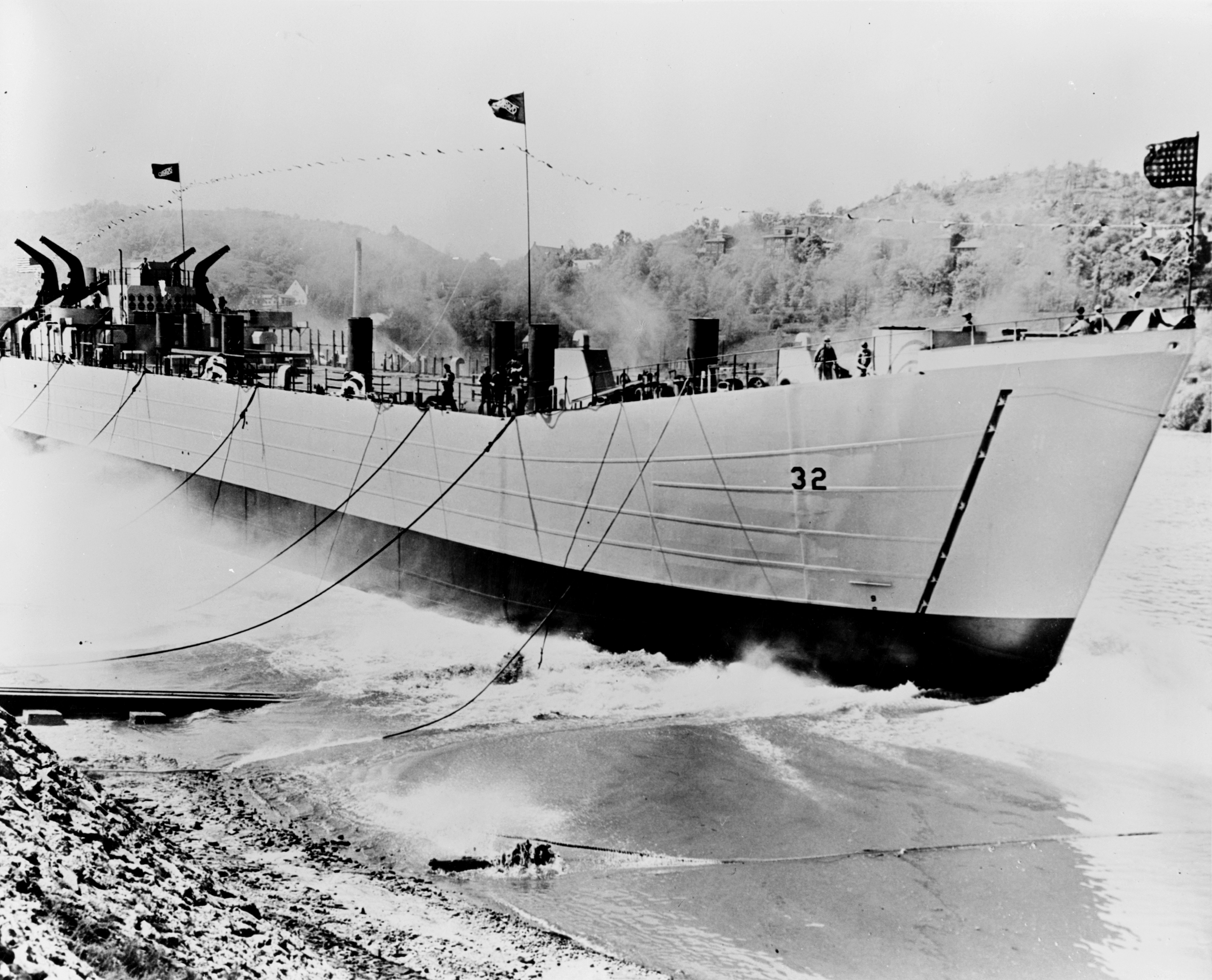 Launch of the U.S. Navy tank landing ship LST-32 on 22 May 1943 at the Dravo Corporation Pittsburgh, Pennsylvania (USA). LST-32 was commissioned on 12 July 1943. On 1 July 1955 the ship was named USS Alameda County (LST-32). After serving as AVB-1 (Advance Aviation Base Ship) from 1957 to 1962 it was sold to Italy and finally decommissioned on 1 August 1973.